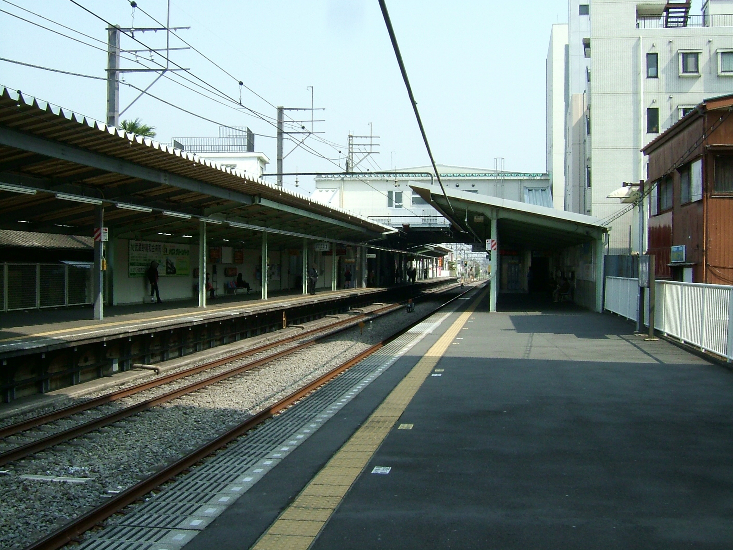 Seibu-Yagisawa Station platform (Seibu Shinjuku Line)